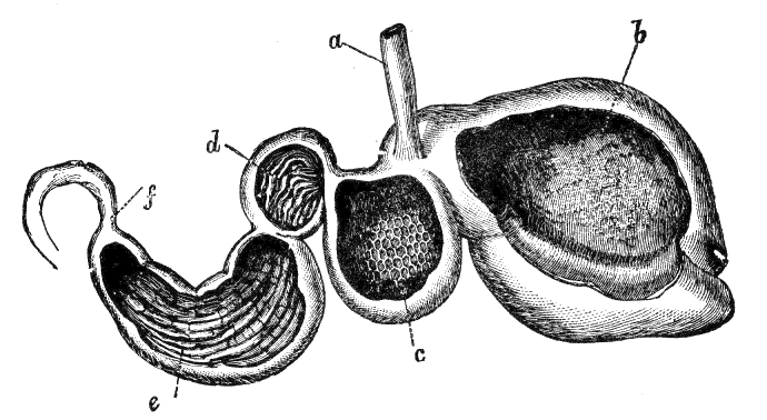 Fig. 146.—Stomach of Ruminant opened to show the internal structure. a, Oesophagus; b, rumen; c, reticulum; d, psalterium; e, abomasum; f, duodenum. (After Flower and Lydekker.)